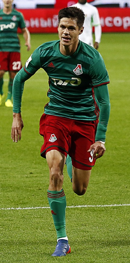 Igor Portnyagin with FC Lokomotiv Moscow in a game against FC Ufa.